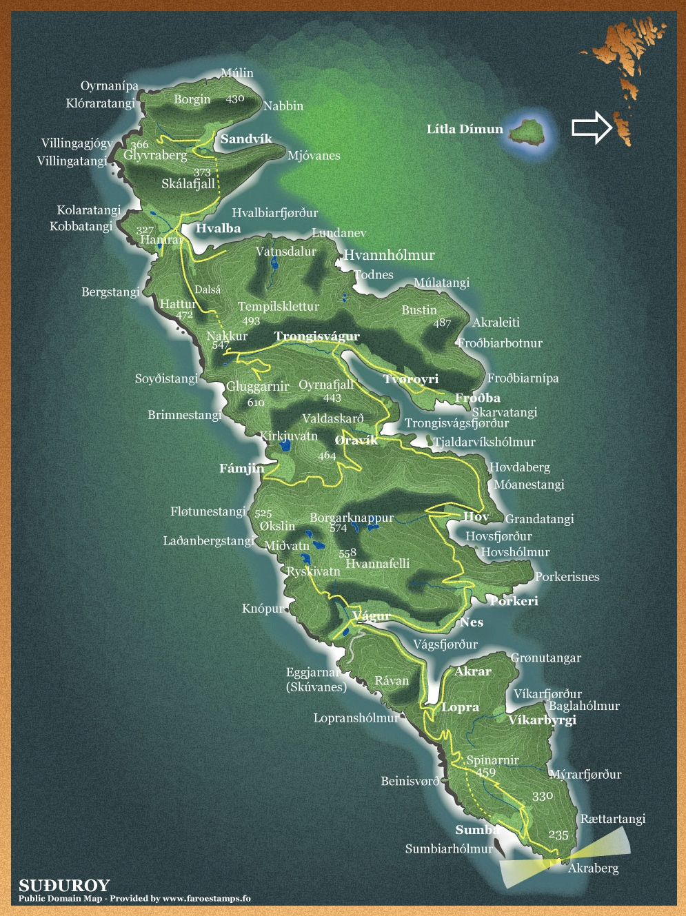 Suðuroy, Faroe Islands